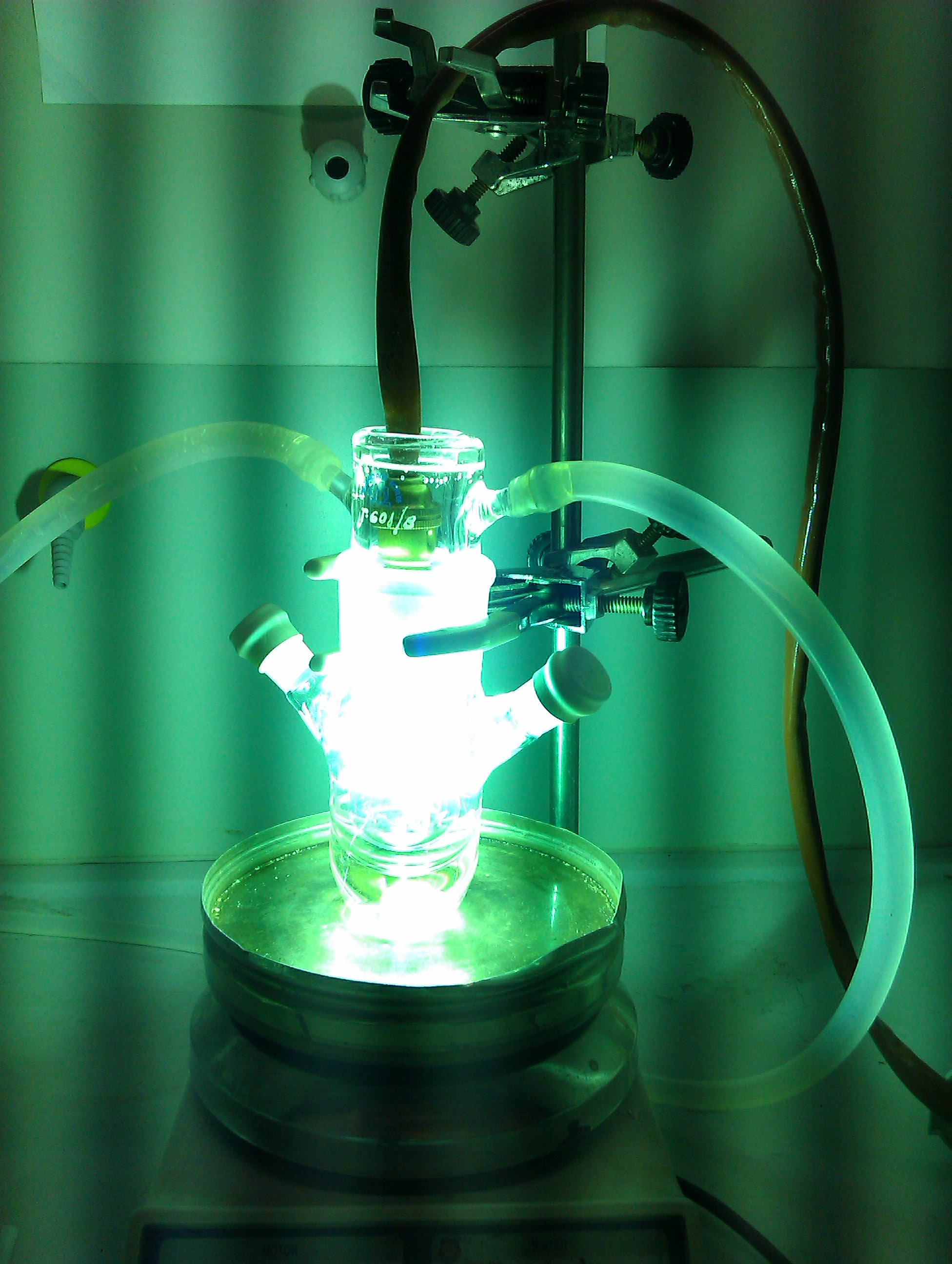 Philips HPK125 UV lamp in a photochemical immersion well reactor 50 mL